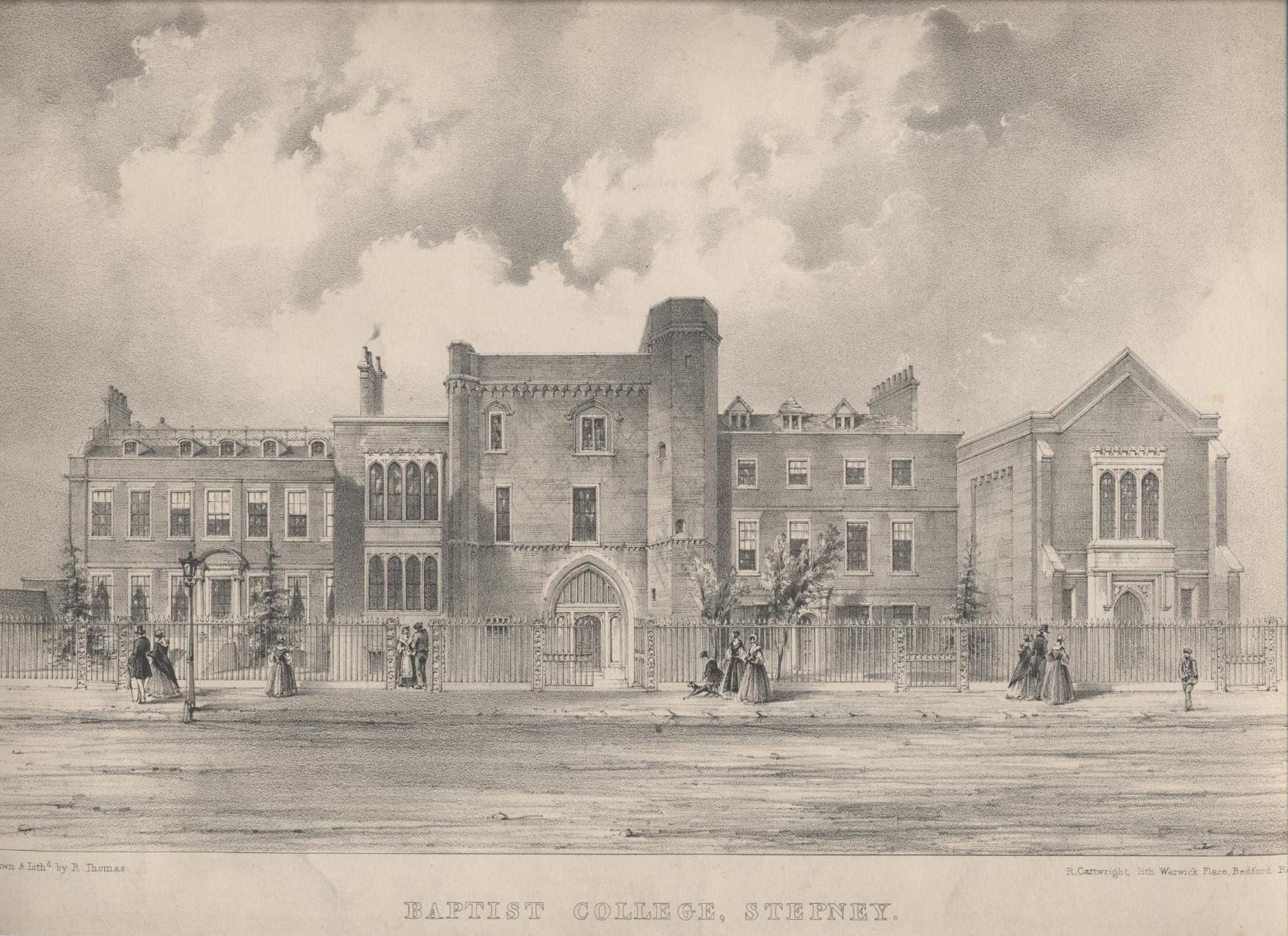 Picture of Baptists College, Stepney courtesy of the Queen Mary University of London.png